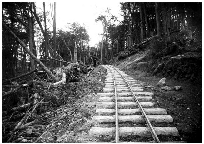 Tracks of the Tren del Fin del Mundo (Ushuaia, Tierra del Fuego) into the region's forest.